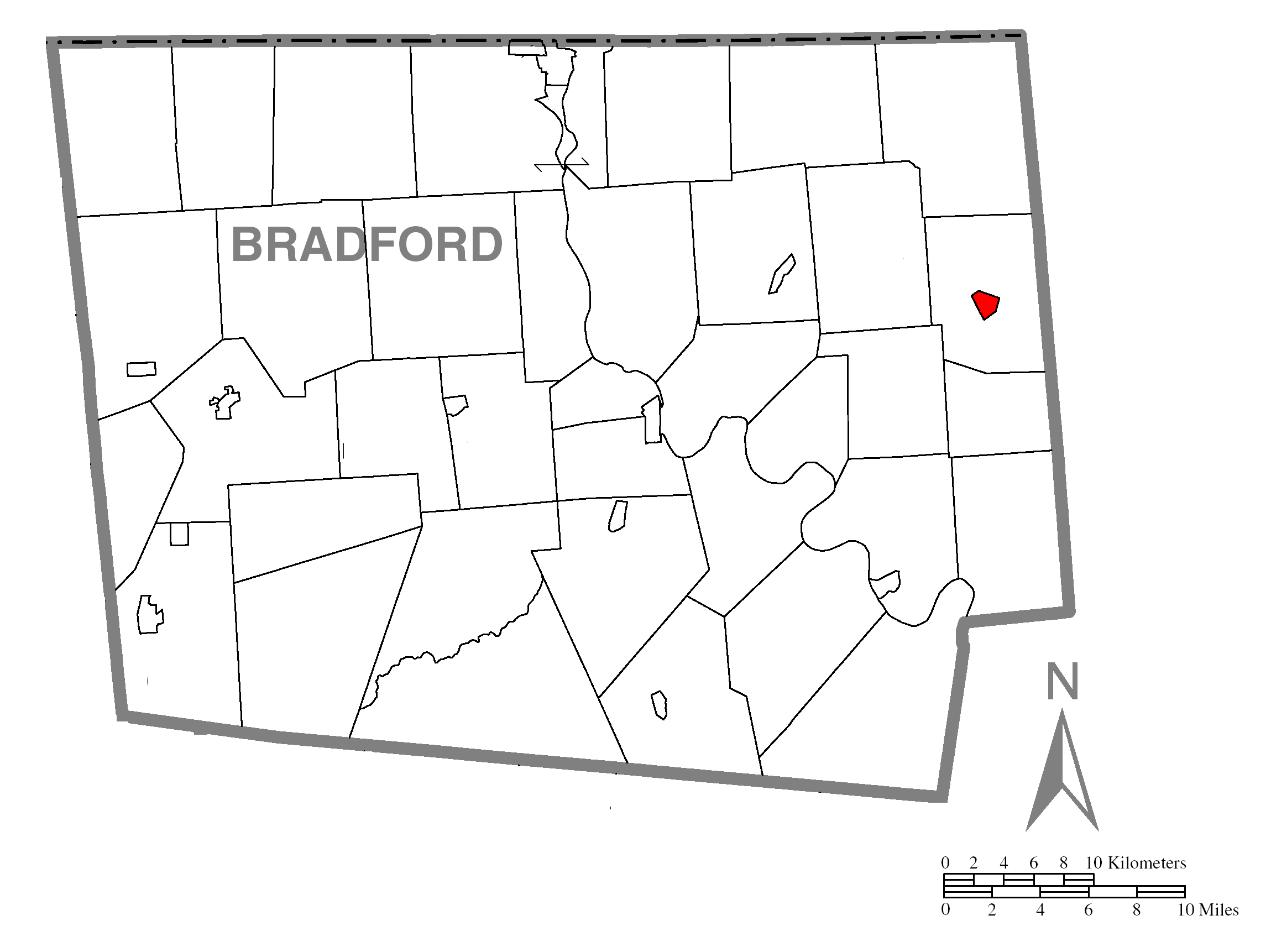 A map of Bradford County showing Le Raysville, Pennsylvania (alternate) highlighted on the map.